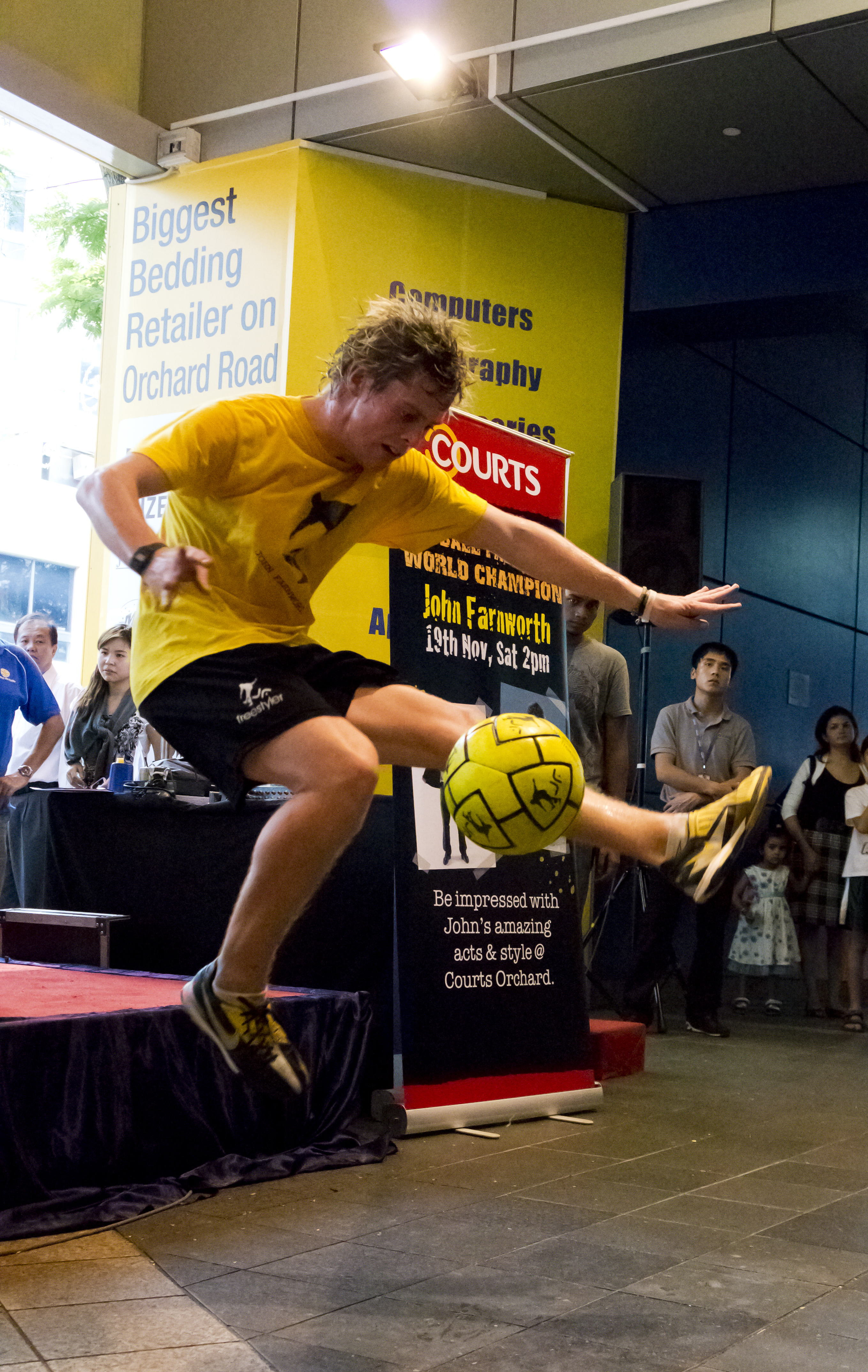 john farnworth freestyle football britain's got talent